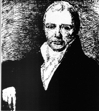 Johann Peter Bemberg (1758–1838), founder of the textile company J. P. Bemberg